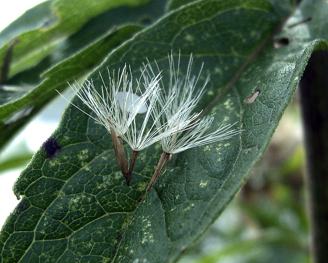 Fruits of Eupatorium cannabinum